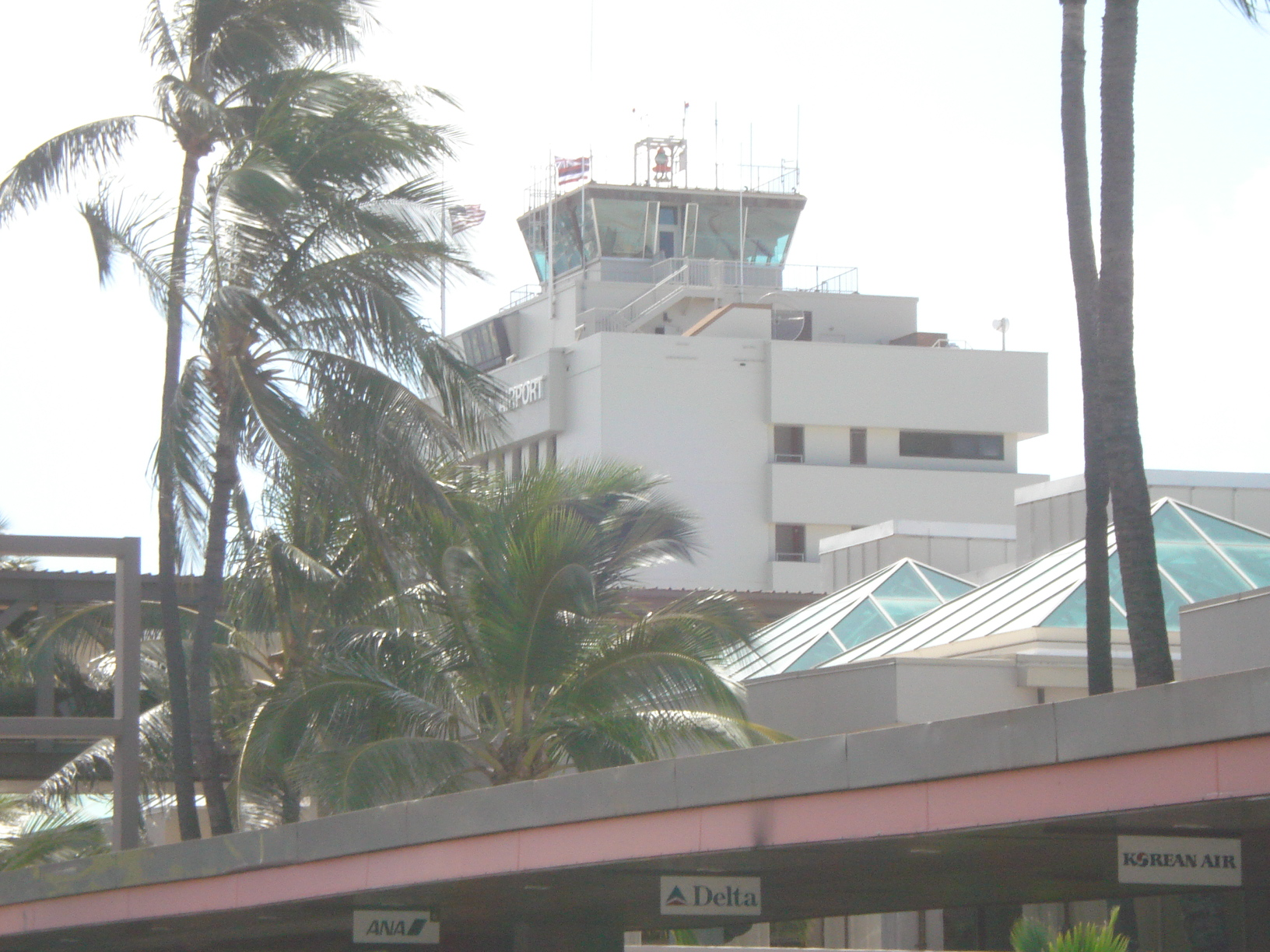 Honolulu International Airport's Control Tower